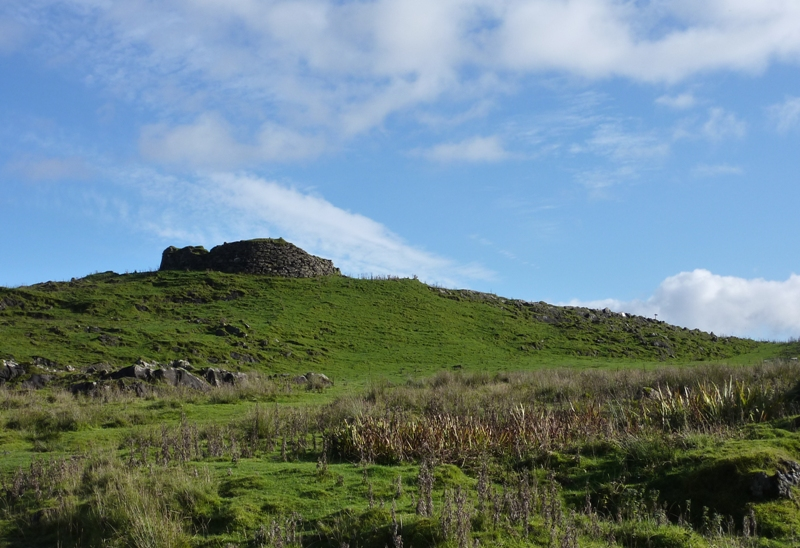 Tirefour Broch, Lismore, Scotland - from west